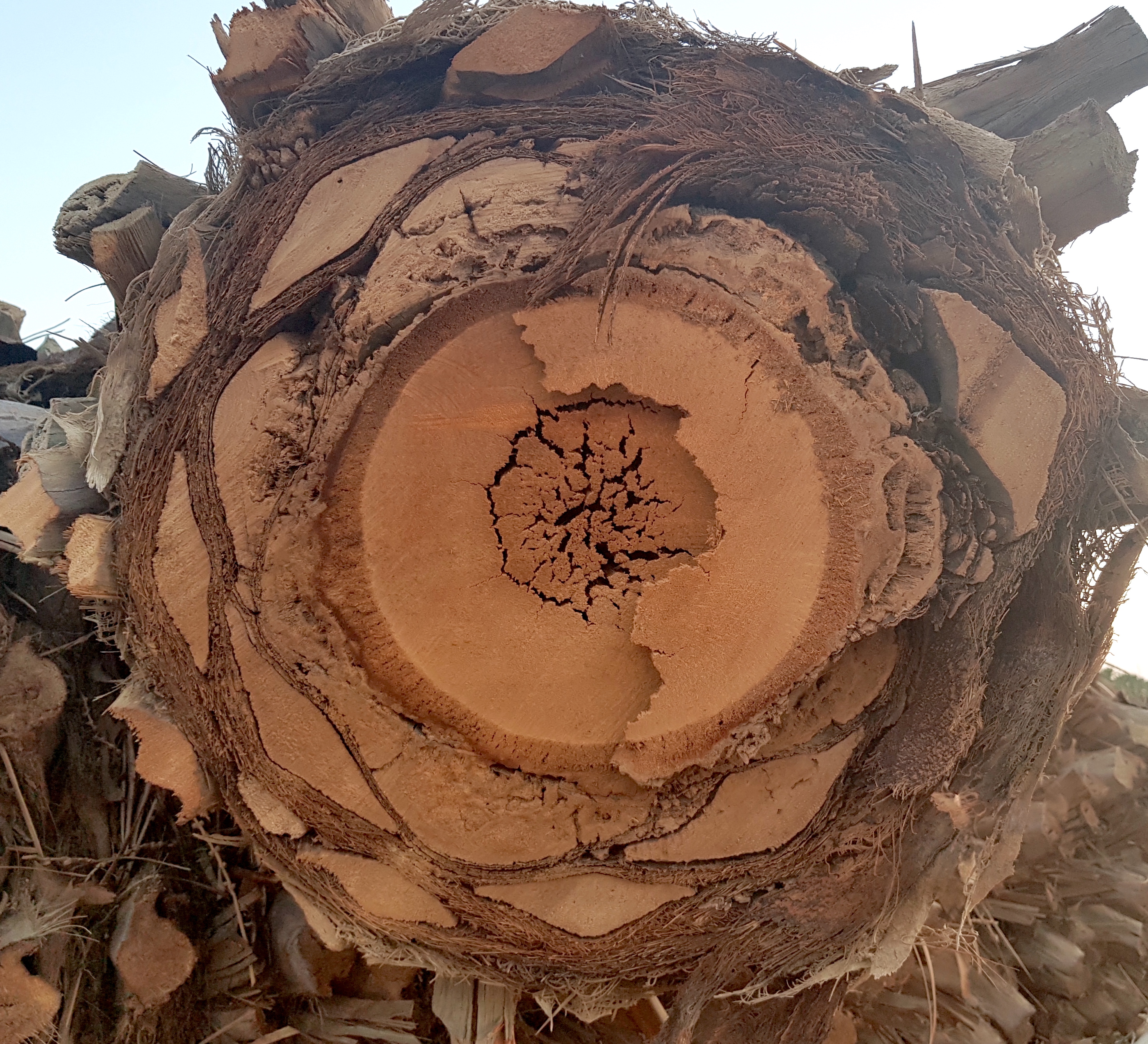 Palmae Phoenix dactylifera Trunk section , no tree rings